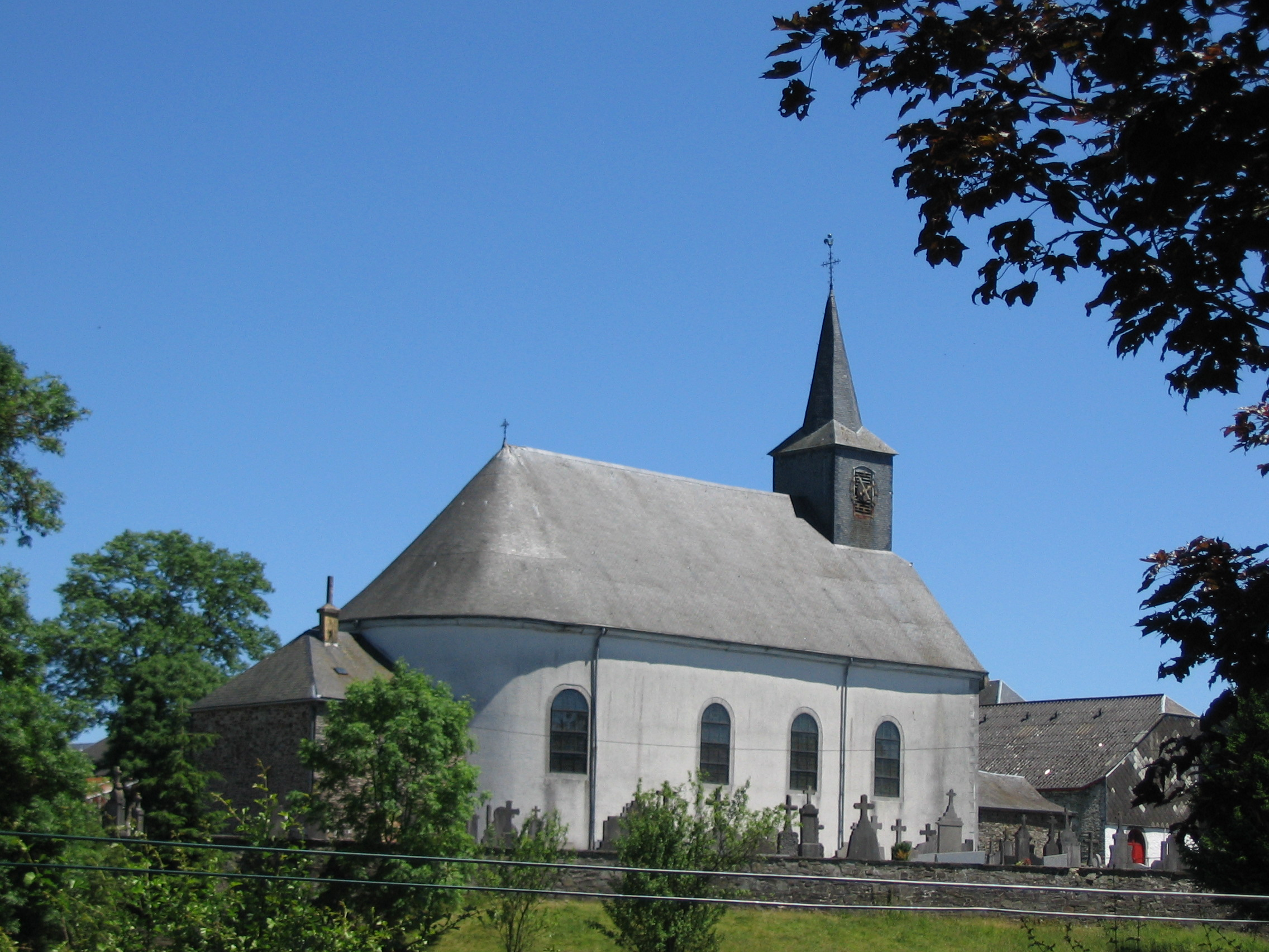 Church of Anloy, Libin, Luxembourg, Belgium